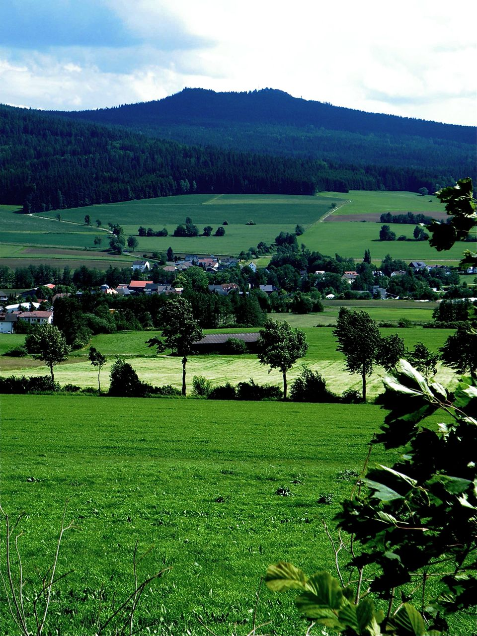 The Kösseine, a mountain in the Fichtelgebirge massif in Bavaria, Germany